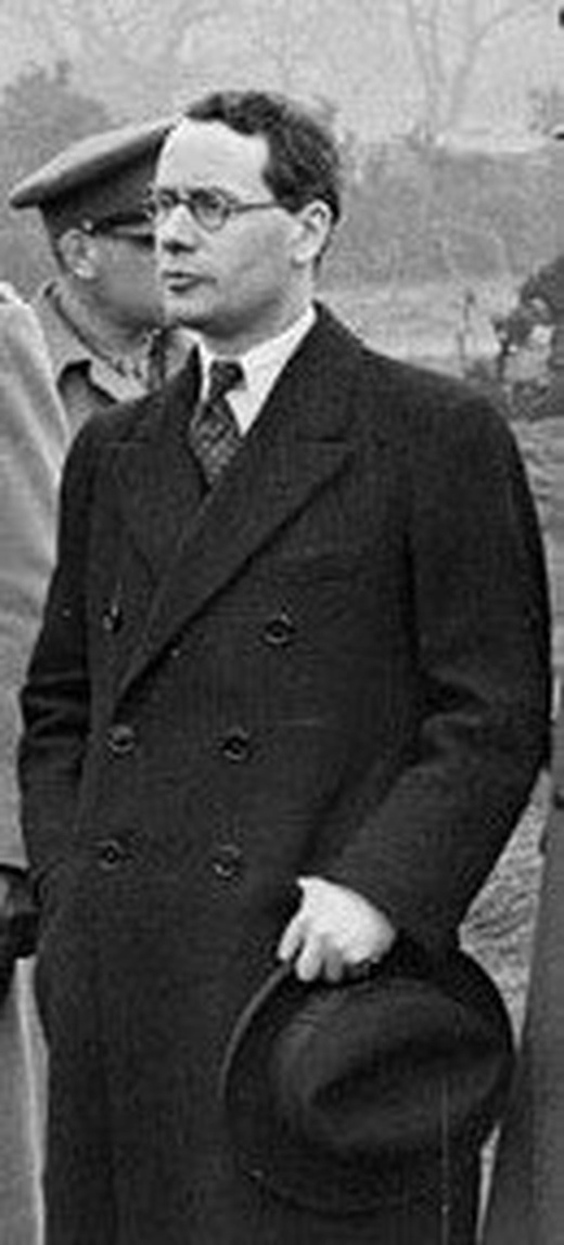 The Right Honourable Malcolm MacDonald visiting units of the Canadian Army before taking up the appointment of British High Commissioner in Canada. England, 1941.